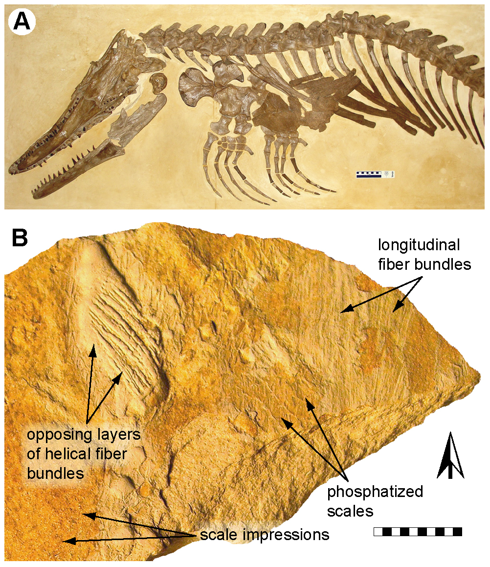 Figure 1 of "Three-Dimensionally Preserved Integument Reveals Hydrodynamic Adaptations in the Extinct Marine Lizard Ectenosaurus (Reptilia, Mosasauridae)" PLoS ONE 6 (11): e27343. A: Partial skeleton of Ectenosaurus clidastoides. B: Slab FHSM VP-401-05 showing phosphatized integumentary structures in medial view. Black and white arrow indicates anterior. Scale bars, (A) 10 cm and (B) 10 mm.